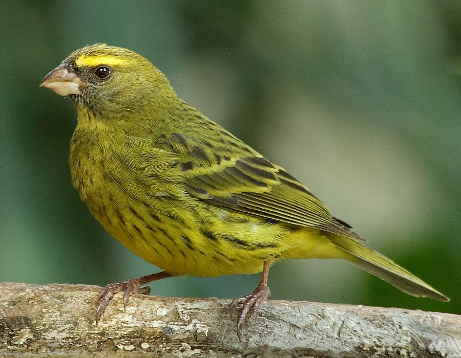 Forest Canary (Serinus scotops) in our garden (Pietermaritzburg, South Africa). Endemic to southern Africa. For more information about this species go to